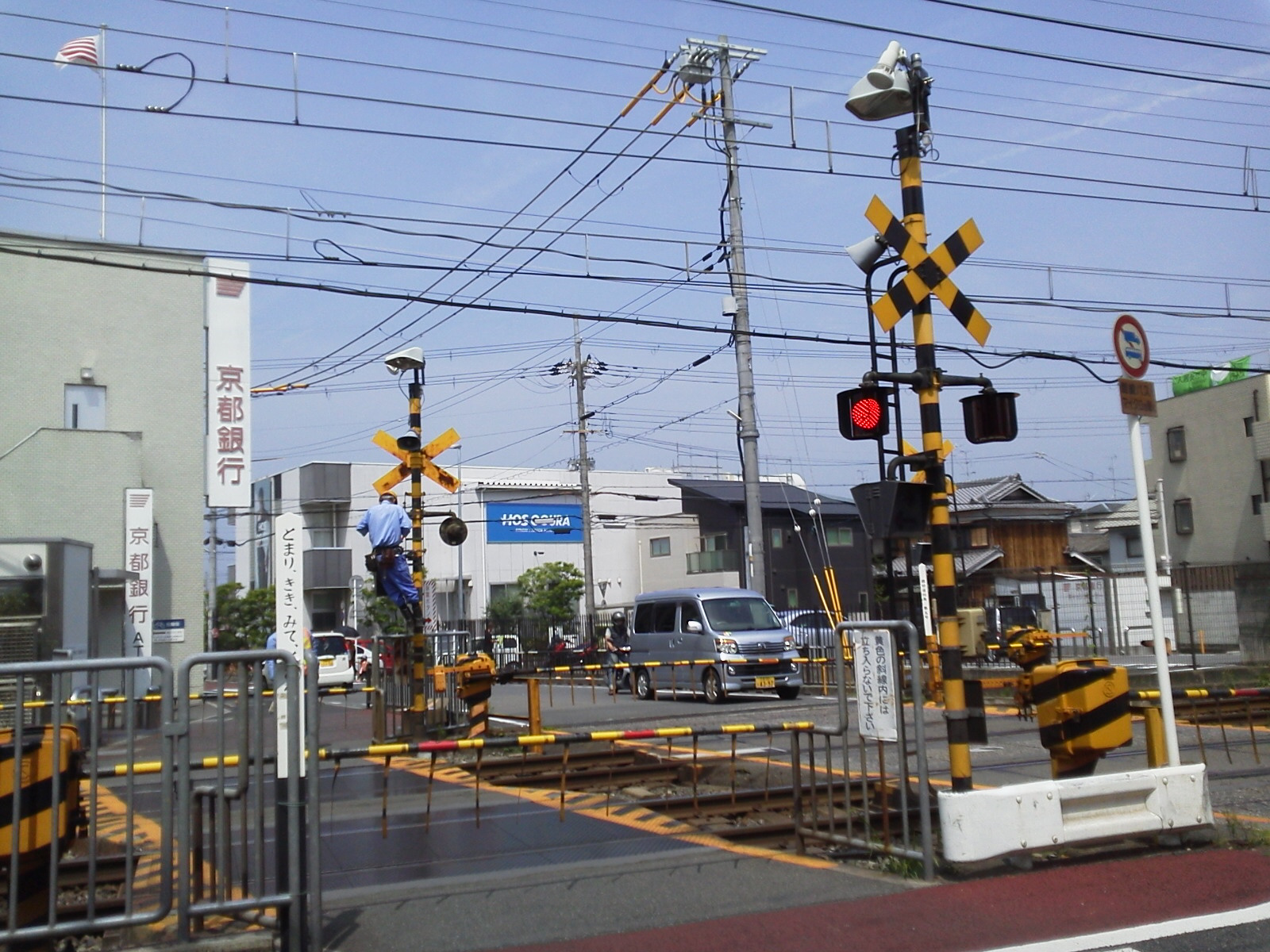 kinki nippon railway